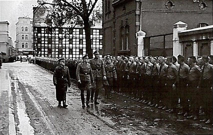 Bydgoszcz - Autumn 1939. Inspection of paramilitary "Volksdeutscher Selbstschutz" unit. From the left: Josef Meier ("Bloody Meier") - leader of Selbstschutz in Bydgoszcz district; Werner Kampe - mayor of Bydgoszcz; Ludolf-Hermann von Alvensleben - leader of Selbstschutz in Pomerania.